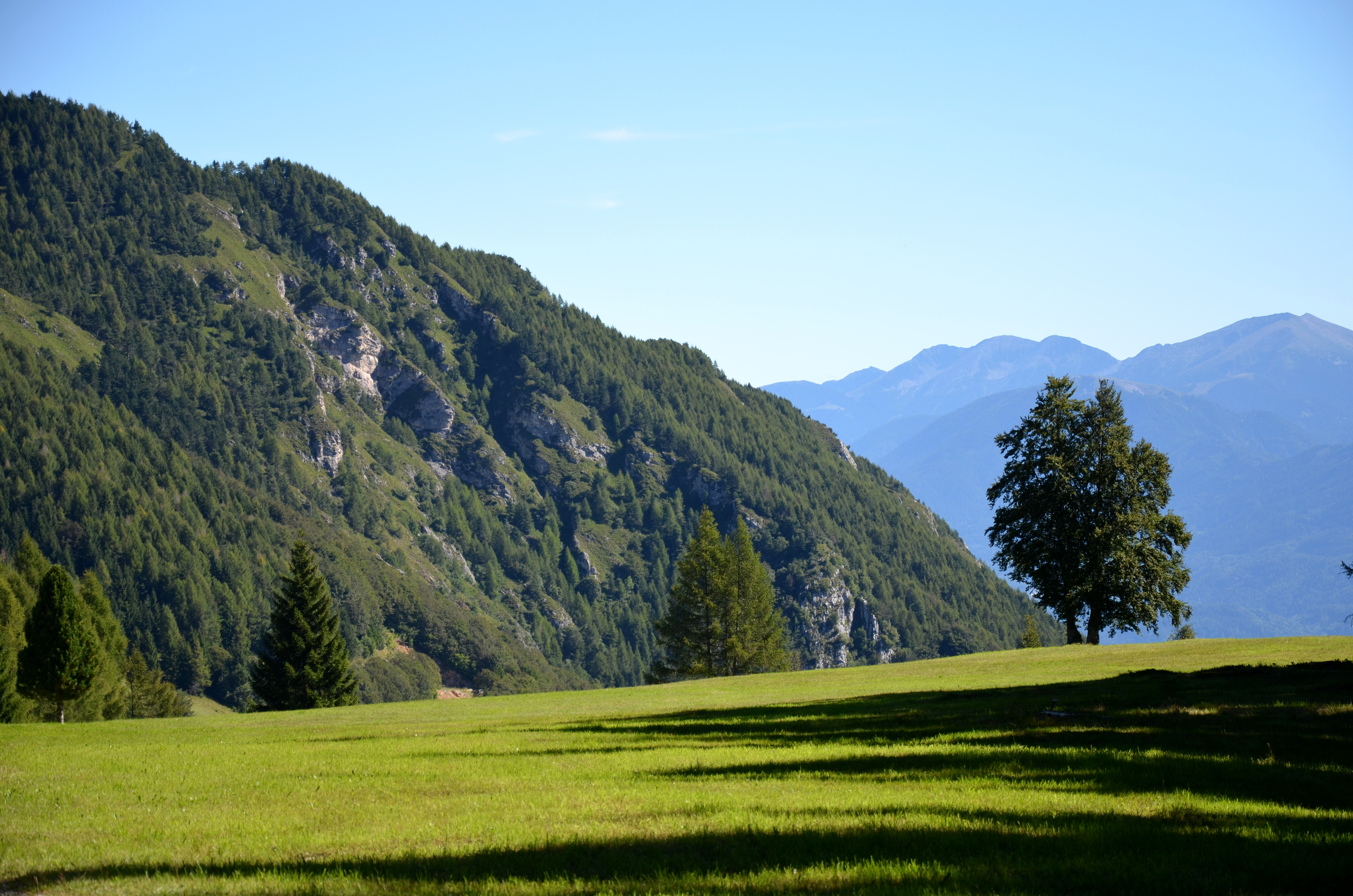 Monte Bondone 2